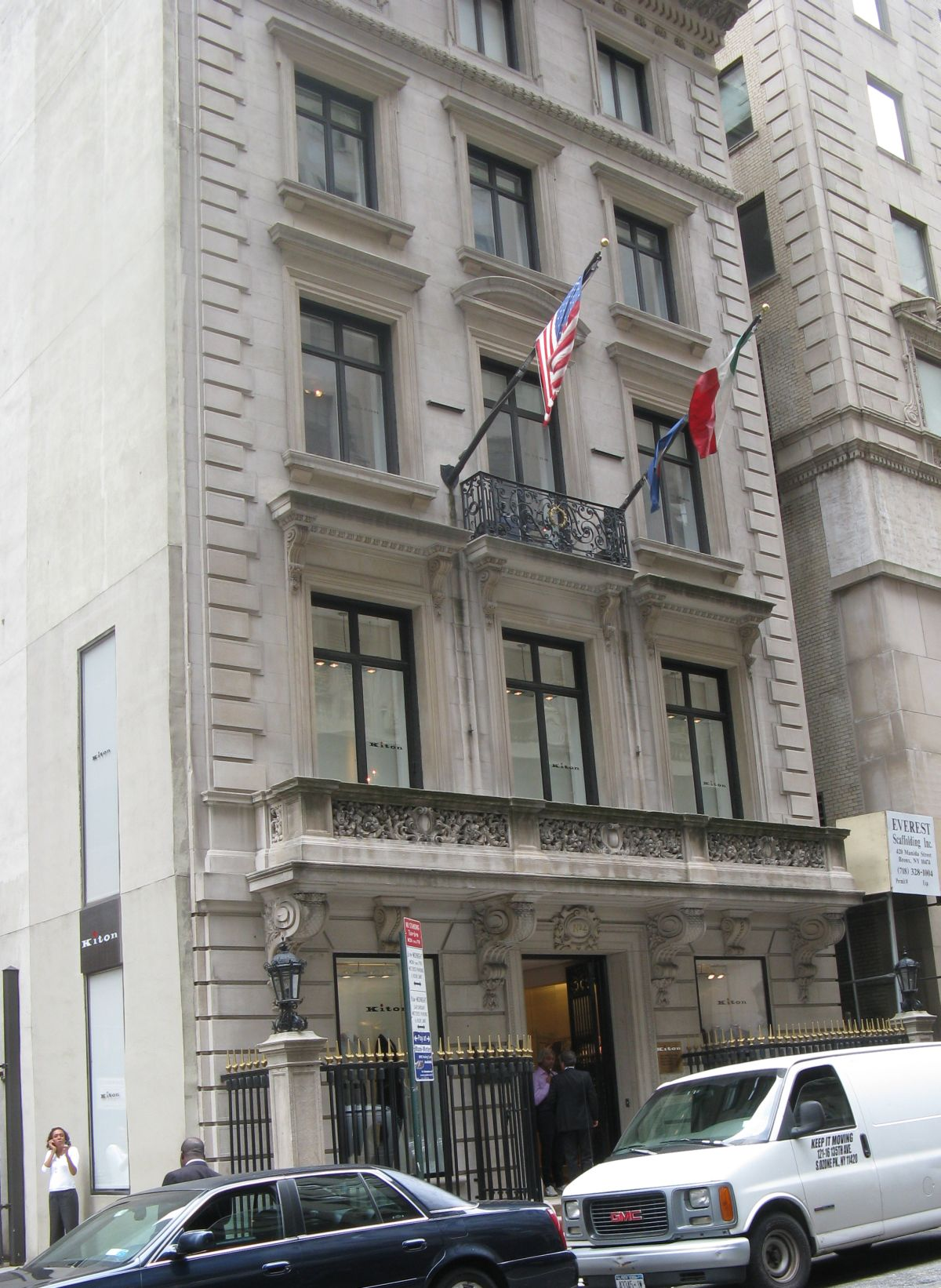 William H. Moore House